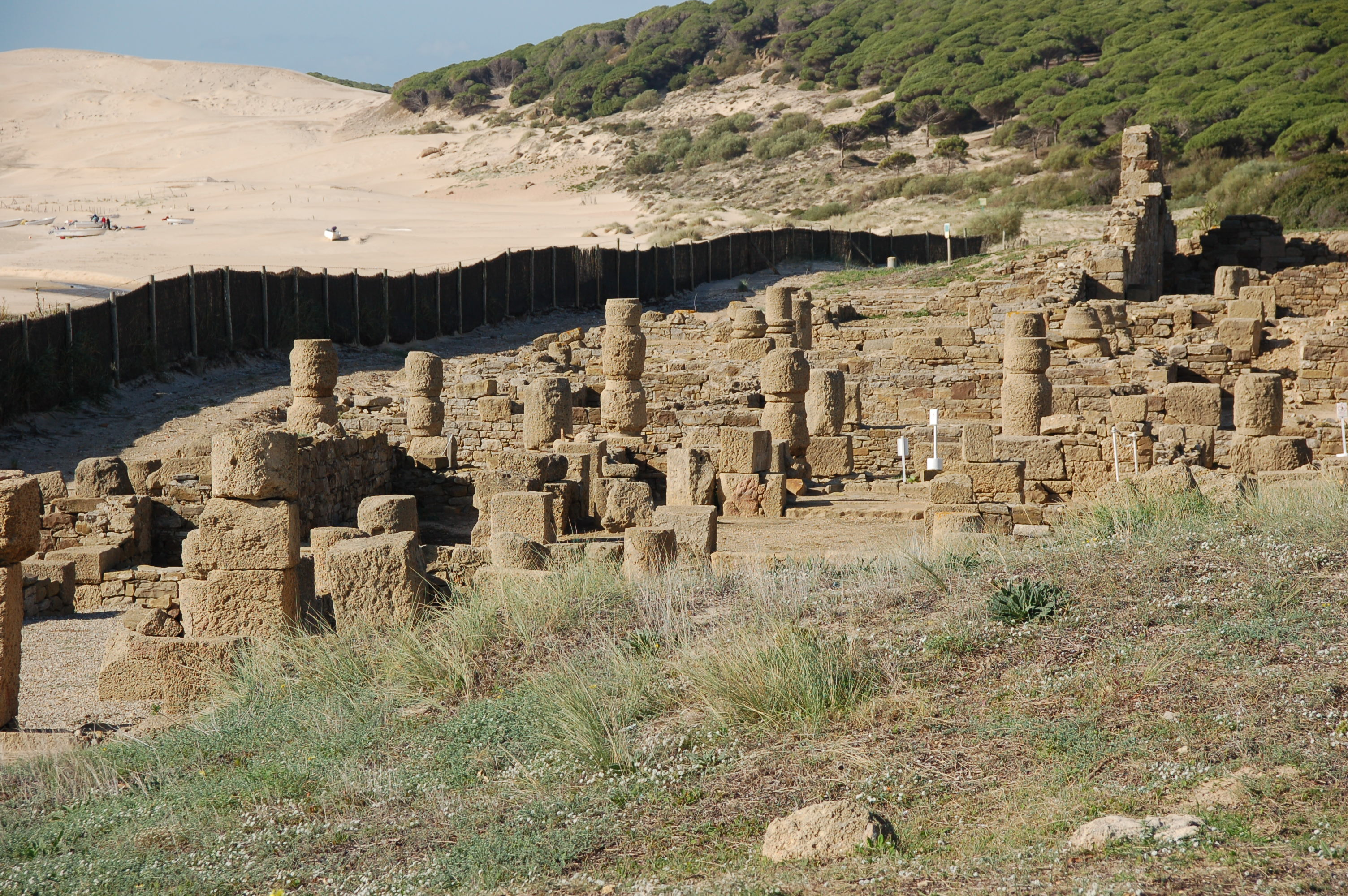 The Roman ruins of Baelo Claudia in Bolonia, Cádiz, Spain